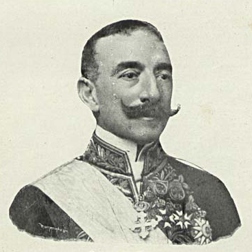 António Maria Tovar de Lemos Pereira, 1st Count of Tovar (?-1911), Portuguese diplomat.